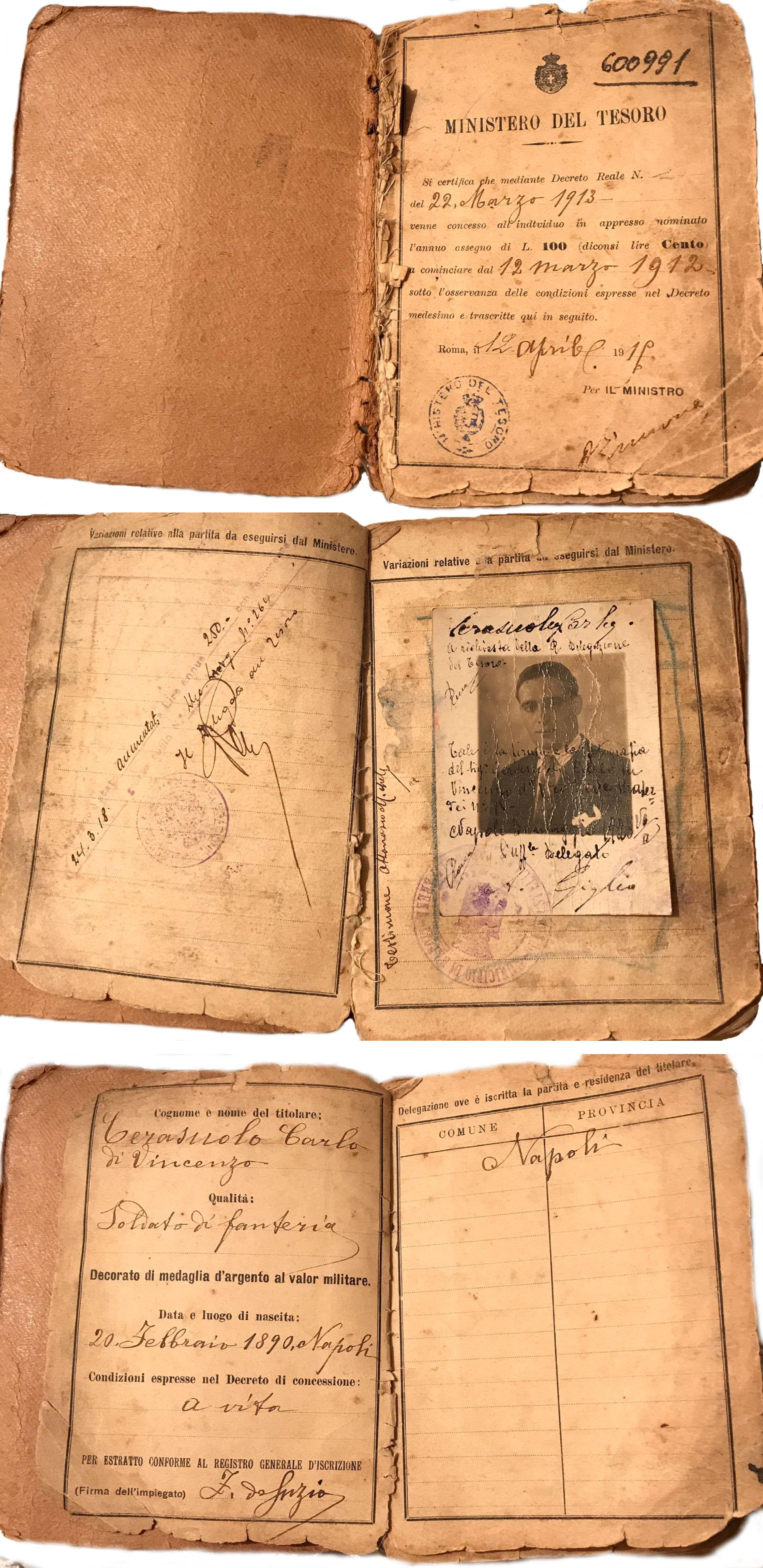 Retirement book of Carlo Cerasuolo for Silver Medal of Military Valor, Italian partisan and father of Maddalena Cerasuolo.